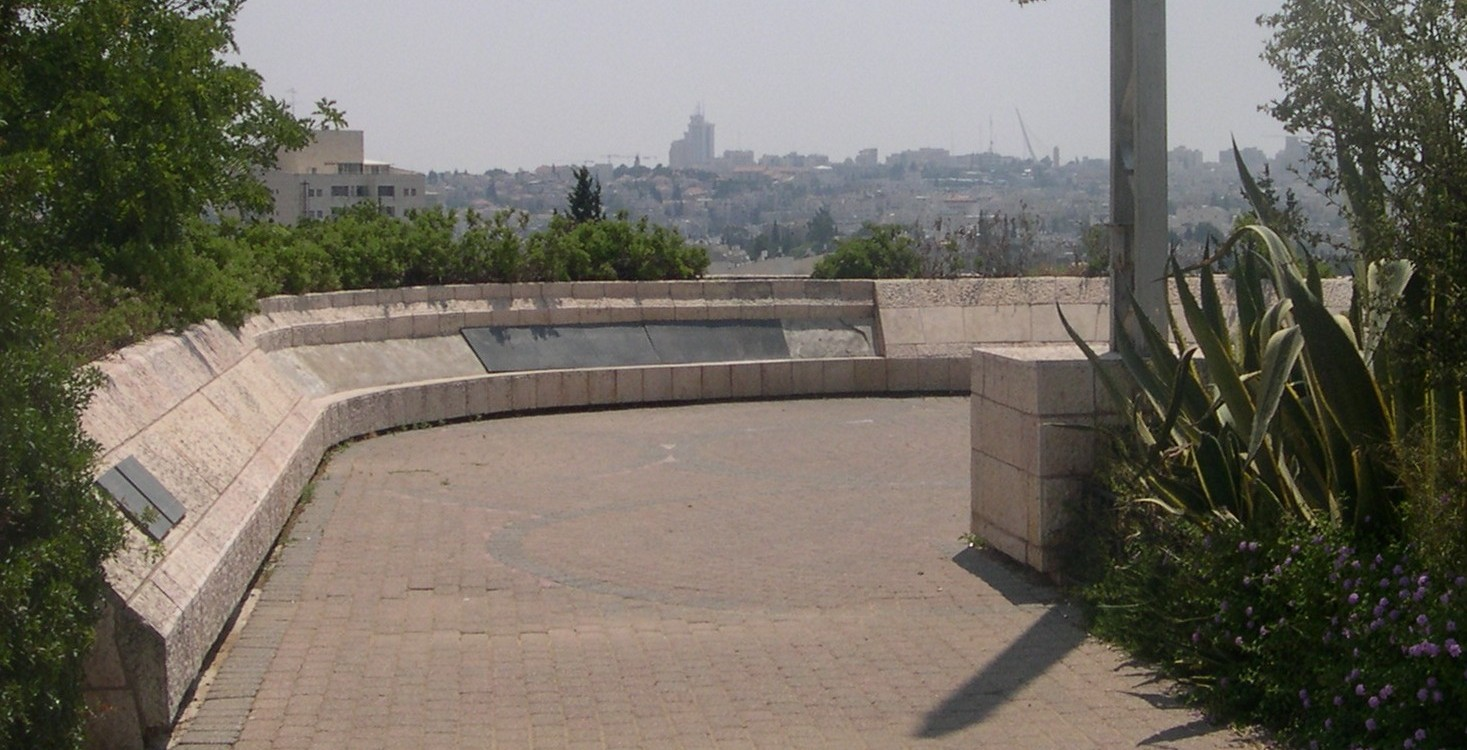 Mitzpe Oded, Giv'at HaMivtar, Jerusalem